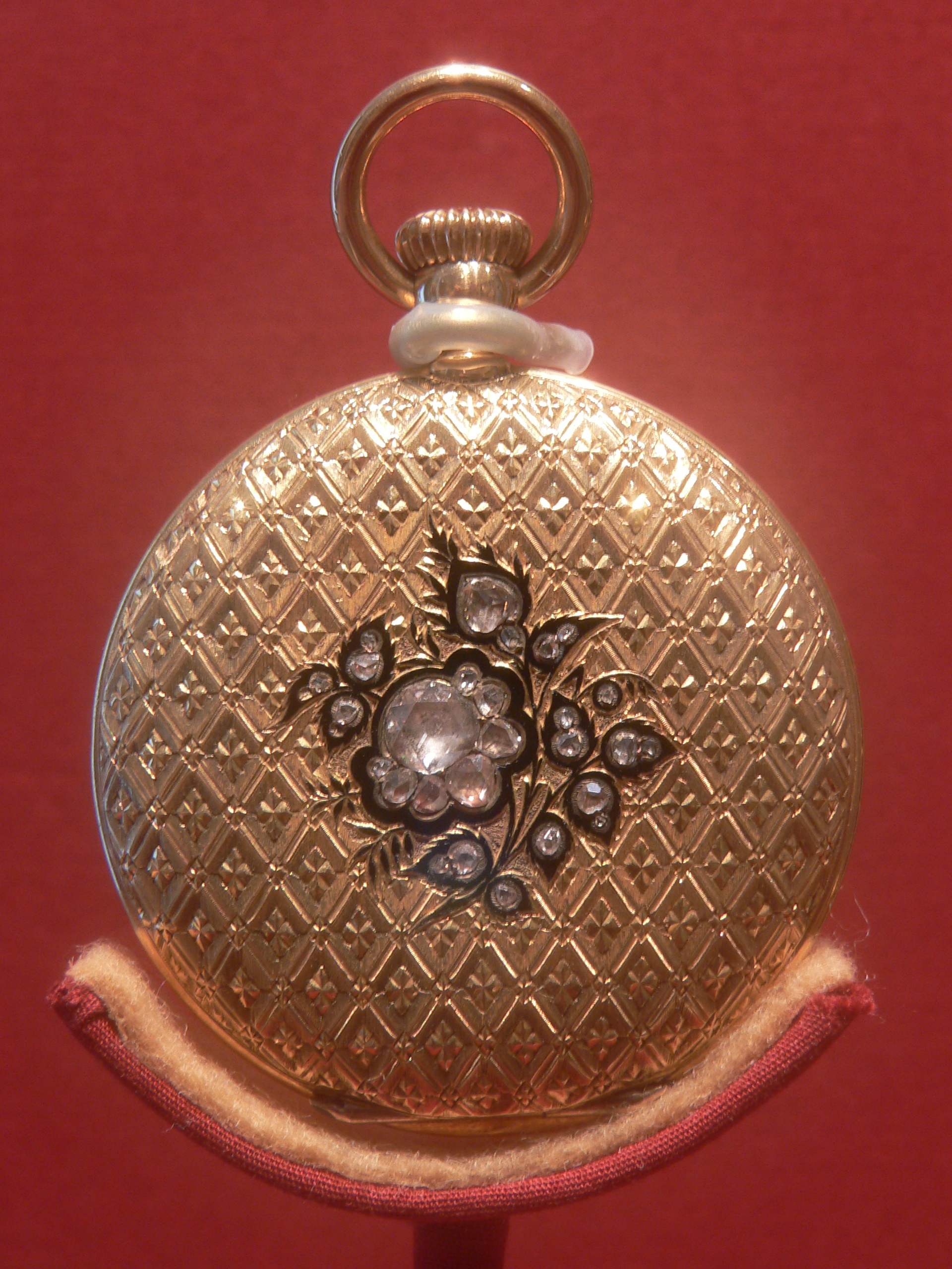 Patek Philippe, pocket watch, yellow gold. Given to Jane Stanford by Leland Stanford, January 1, 1868